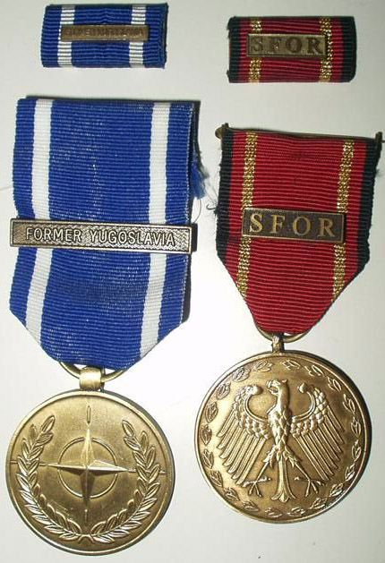 NATO and German Bundeswehr medals for the SFOR mission